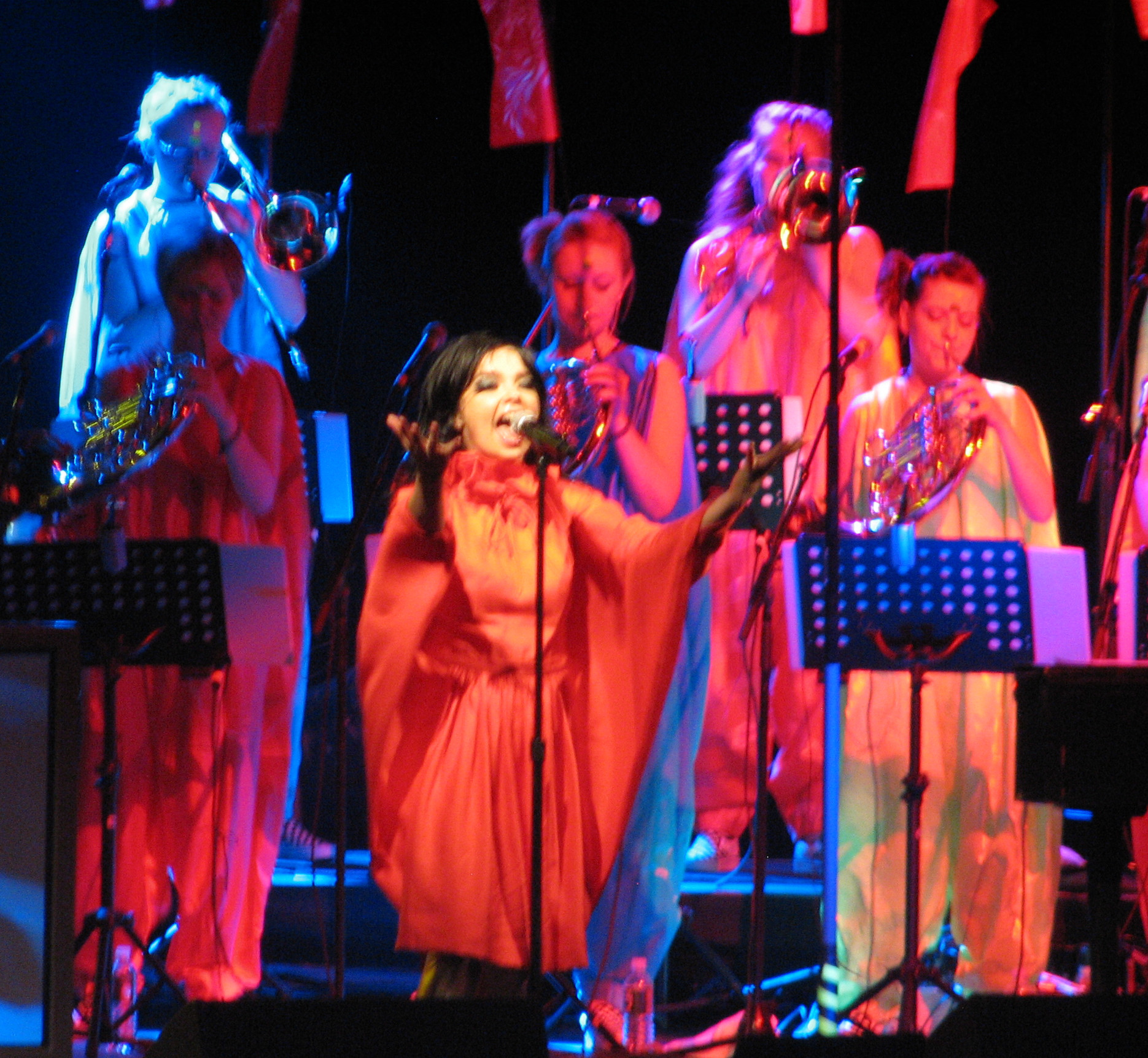 Björk at Radio City Music Hall